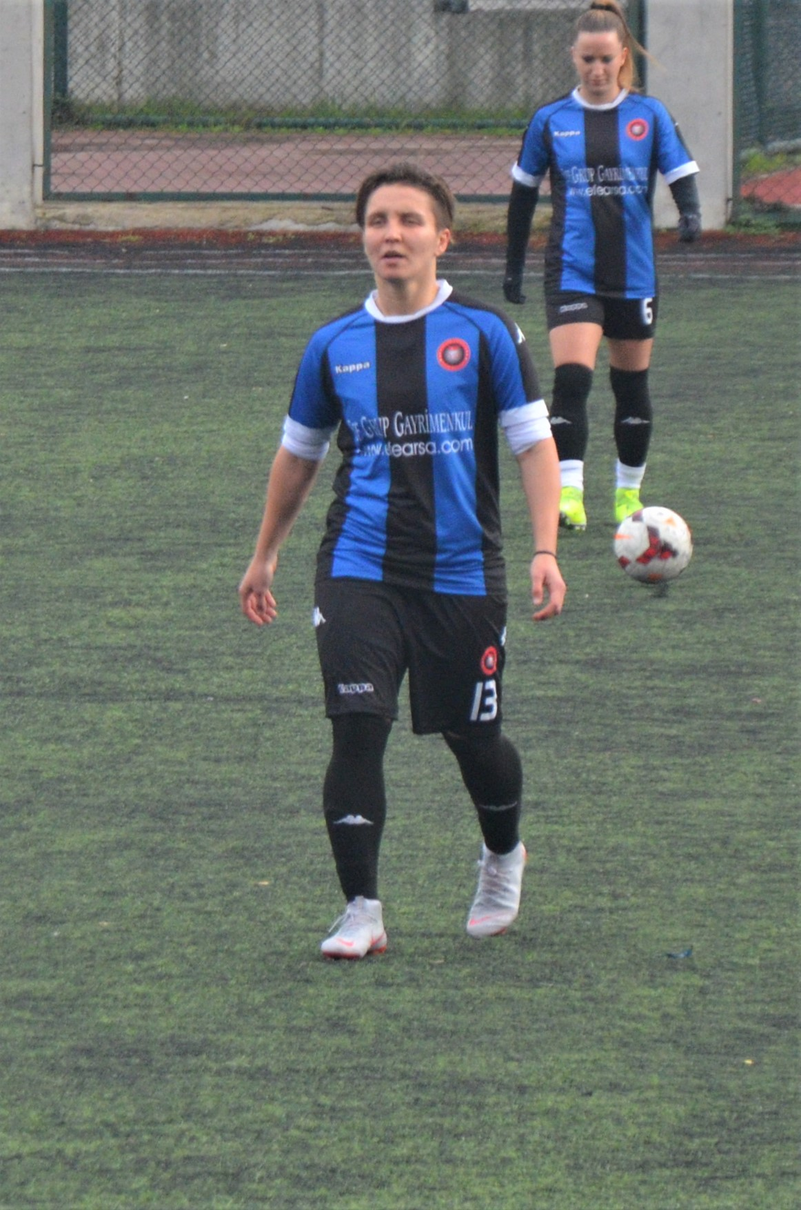 Nergiz Hacıyrva of Fatih Vatan Spor in the 2019-20 Turkish Women's First Football League